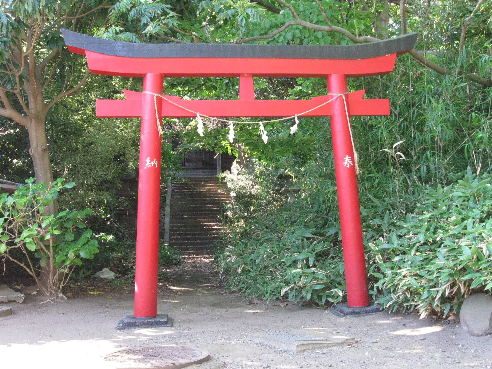 Torii at Kashiwayama-inari shrine in Fujisawa City, Kanagawa Prefecture, Japan